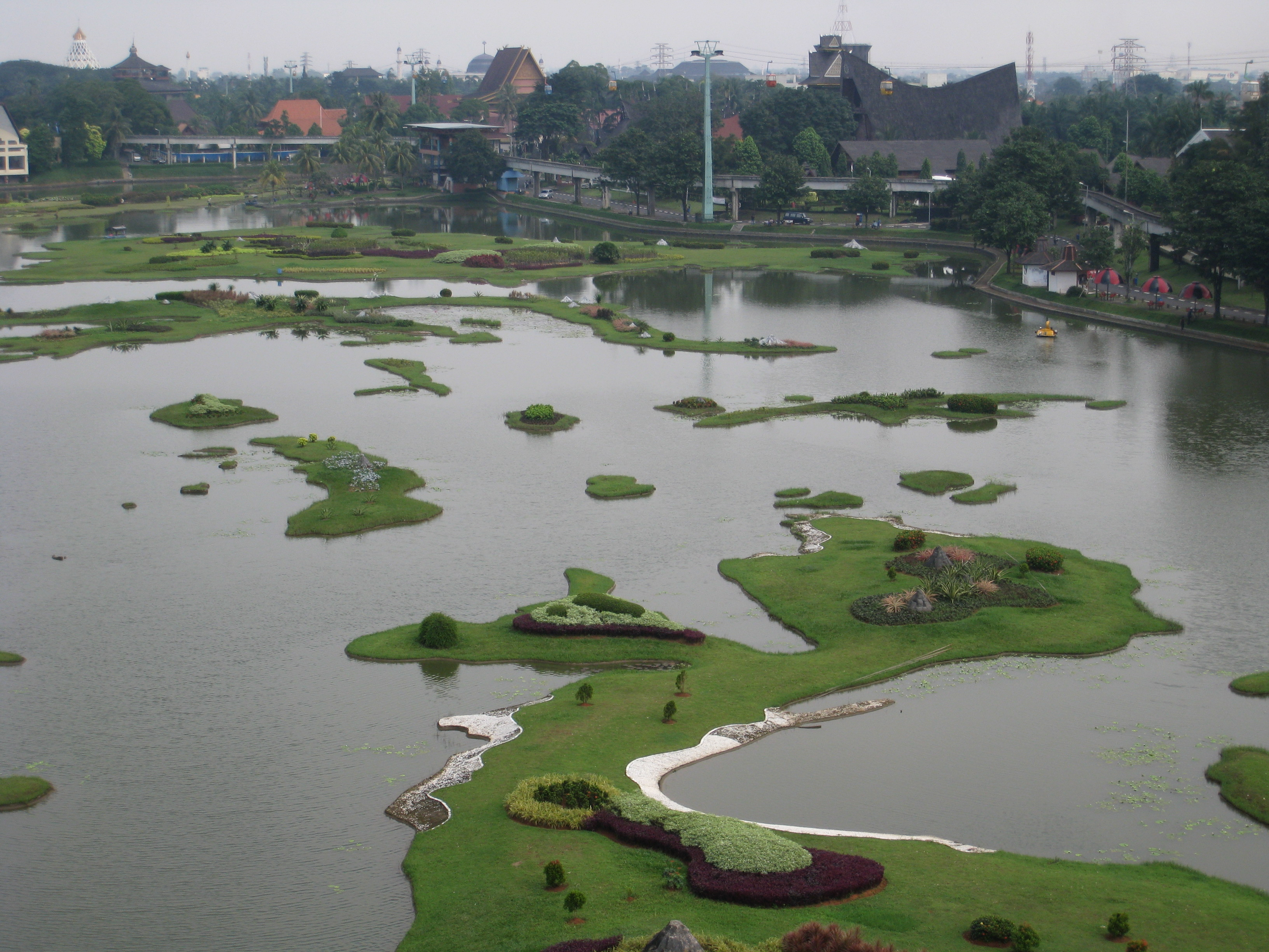 Indonesia, view from the cable car, Taman Mini Indonesia Indah, Jakarta.